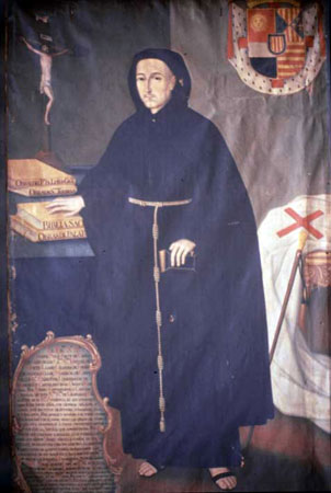 Portrait of José Solís Folch de Cardona (1716-1770)